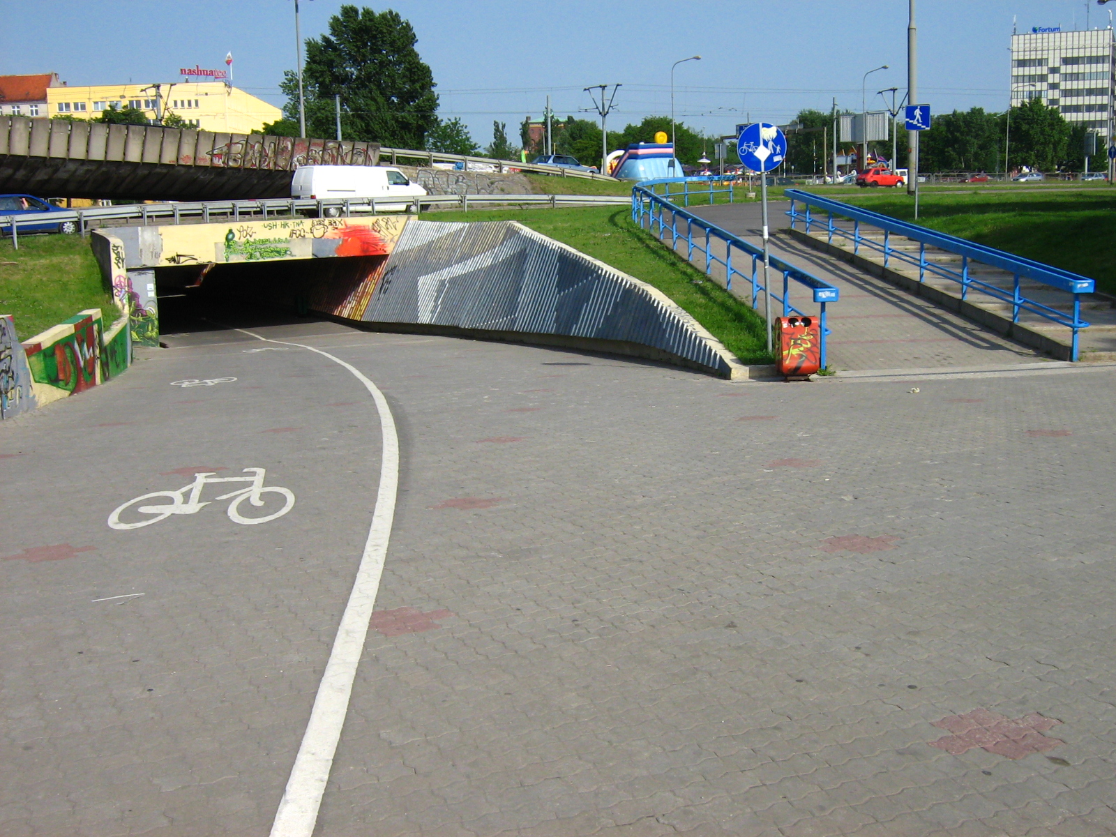 Undergorund passage - bicycle path - Wrocław, Poland